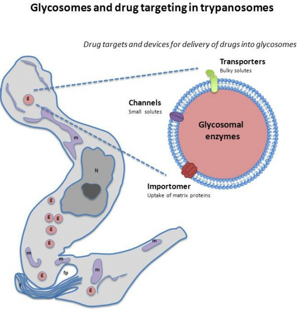 Drug Target for the organelle glycosome in trypanosoma brucei through channels.